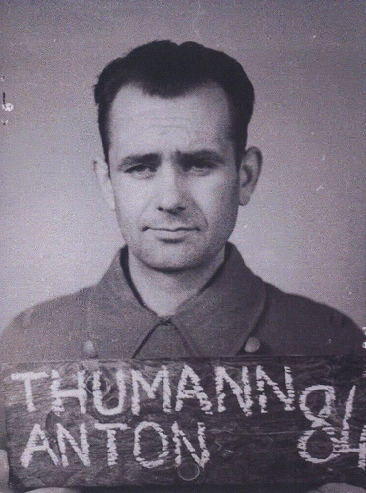 Anton Thumann after capture